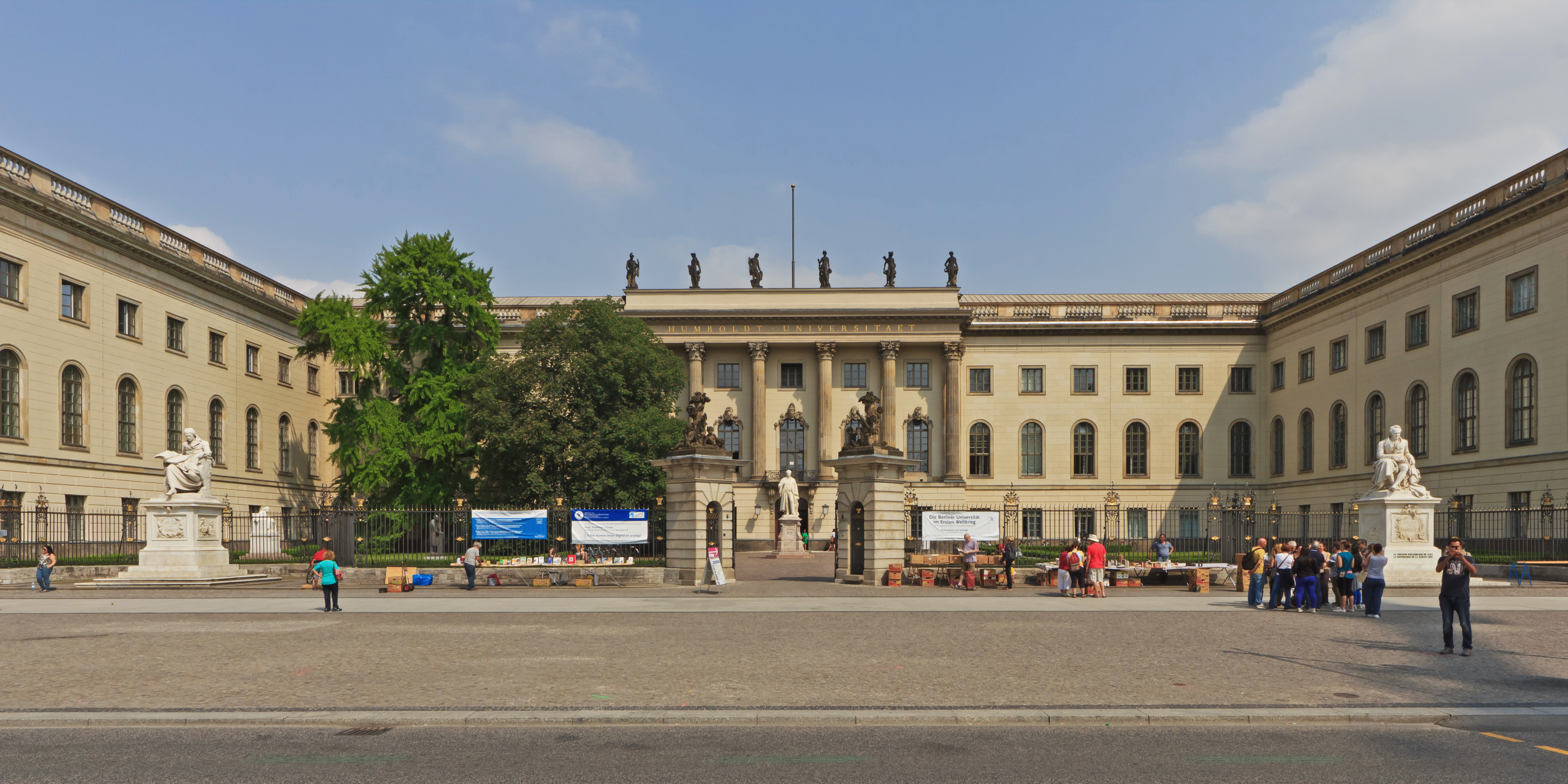 The main building of Humboldt University, Berlin, Germany